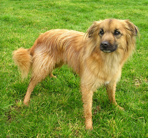 Pyrenean Shepherd smooth-faced LaBrise Pic de Marmure ("Pic") HIC, NAC, NJC, NGC , owned by Gail Mahood The HIC is a herding title; NAC, NJC and NGC are dog agility titles awarded by NADAC[1] Taken Feb 22,2004 at the SMART/USDAA dog agility competition in Salinas, CA. Photo by Ellen Levy Finch (Elf).